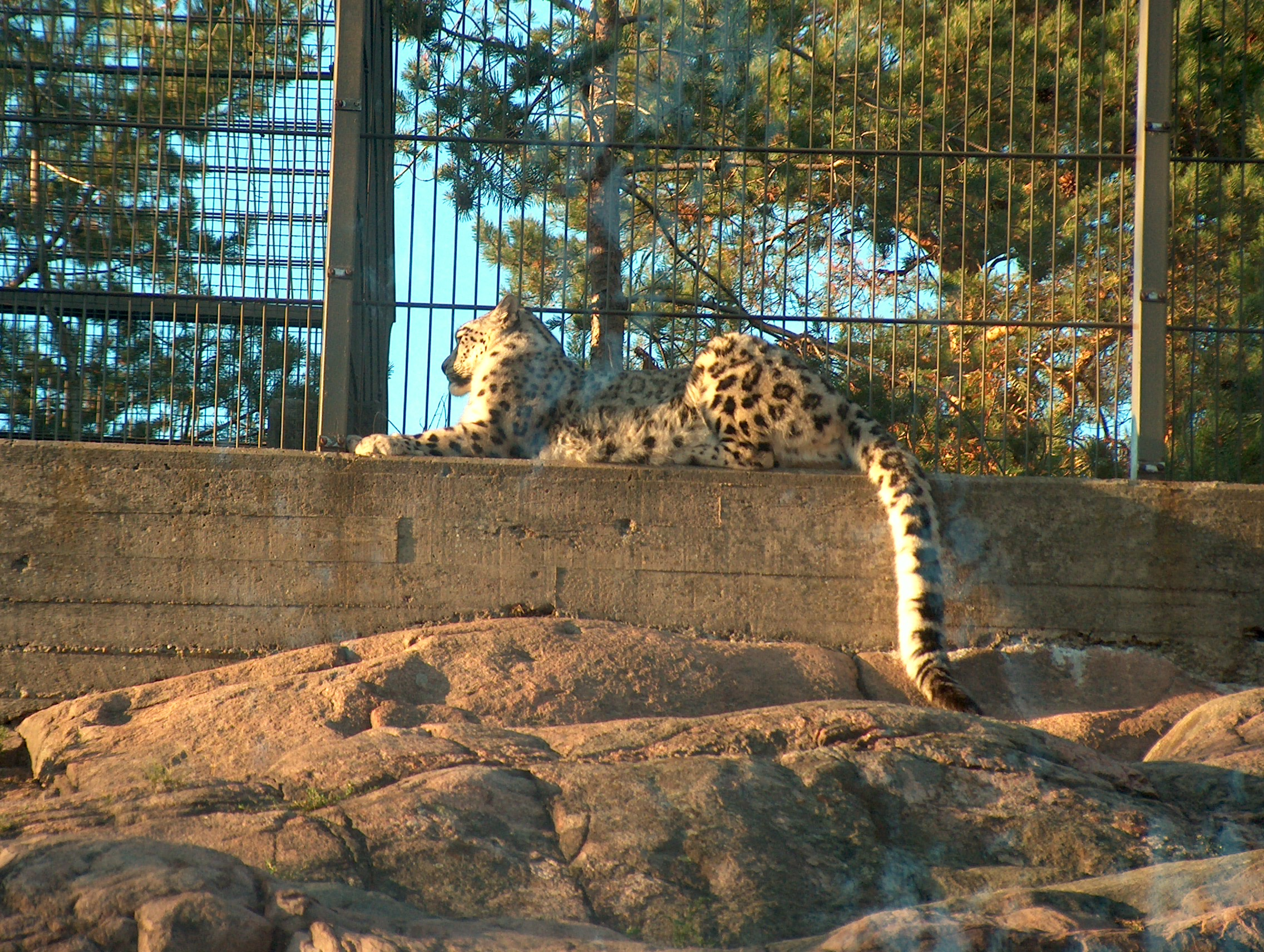 Uncia uncia, Snowleopard in Korkeasaari Zoo - Helsinki, Finland